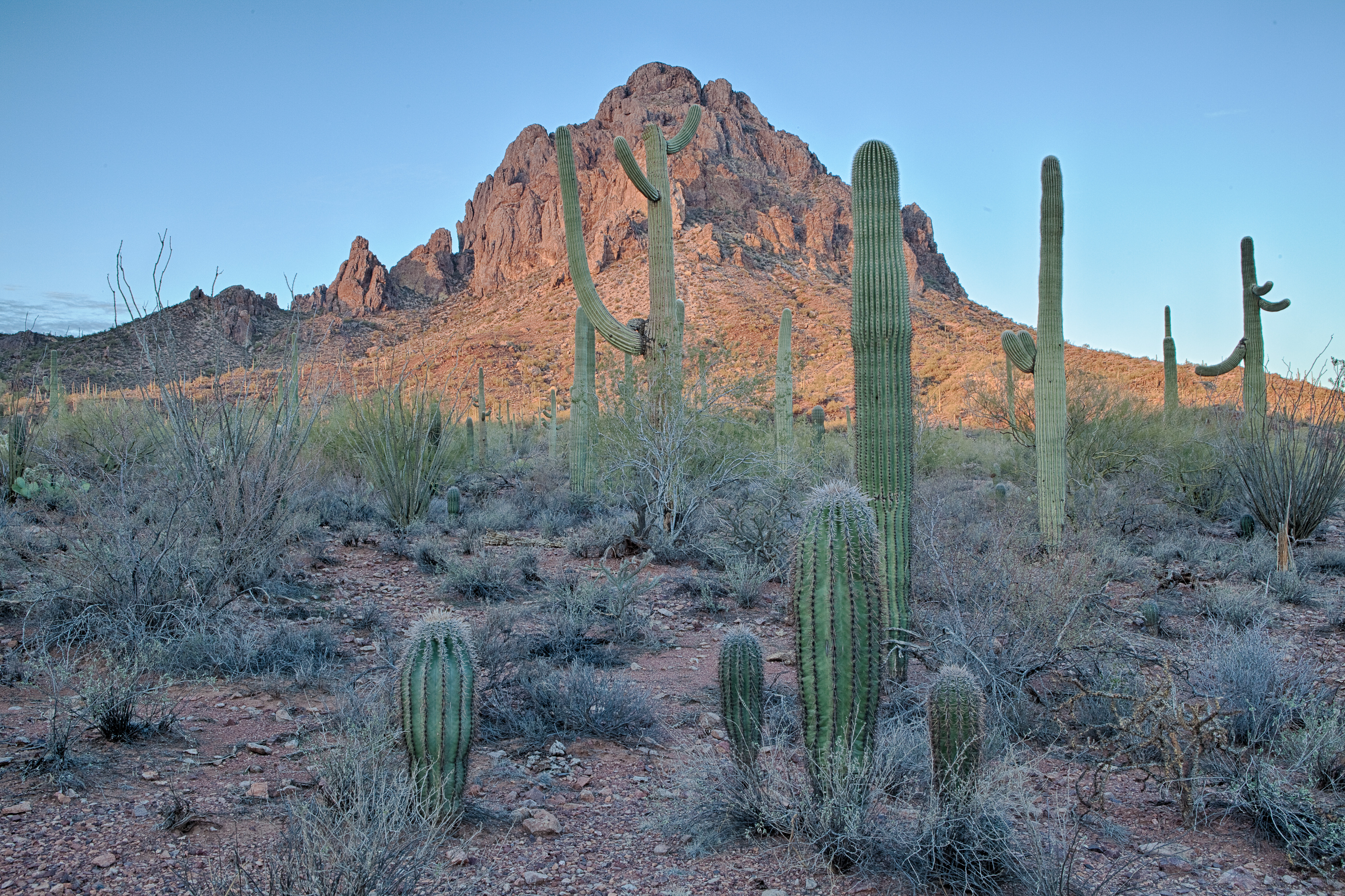 Taking its name from one of the longest living trees in the Arizona desert, the 129,000-acre Ironwood Forest National Monument is a true Sonoran Desert showcase. Keeping company with the ironwood trees are mesquite, palo verde, creosote, and saguaro, blanketing the monument floor beneath rugged mountain ranges named Silver Bell, Waterman and Sawtooth. In between, desert valleys lay quietly to complete the setting.Elevations here range from 1,800 to more than 4,200 feet. Three areas within the monument, the Los Robles Archeological District, the Mission of Santa Ana del Chiquiburitac and the Cocoraque Butte Archeological District, are listed on the National Register of Historic Places. Learn more about Ironwood Forest NM: Photo: Bob Wick, BLM California